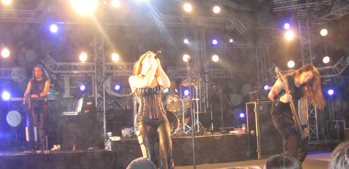 Dutch heavy metal group Epica performing at Tuska Open Air Metal Festival 2006.